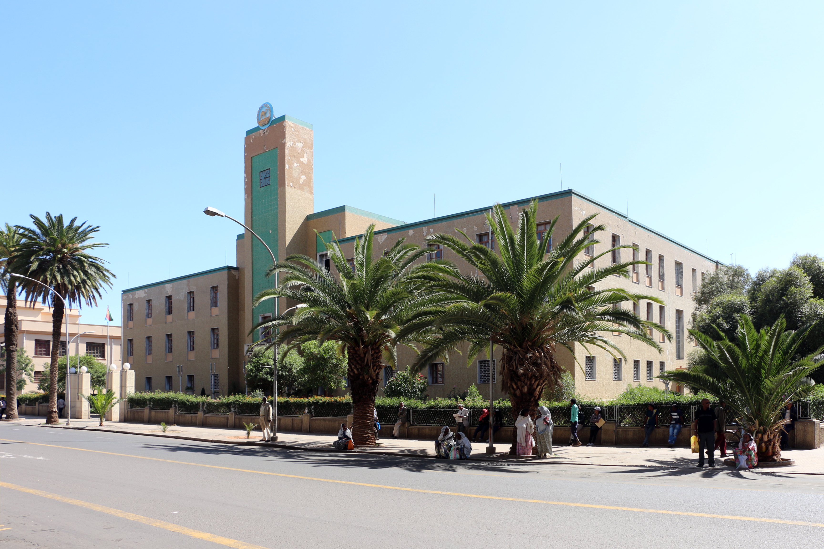 Buildings in Asmara: Asmara City Hall which now houses Regional Administration